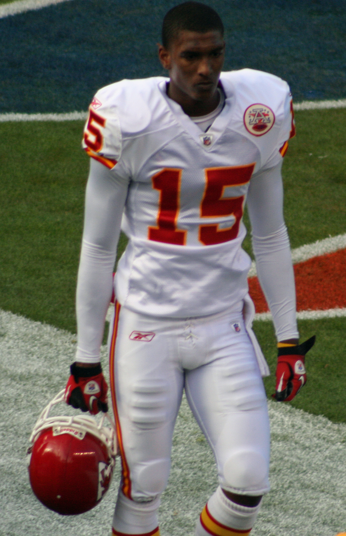 Verran Tucker, a player on the Kansas City Chiefs American football team.